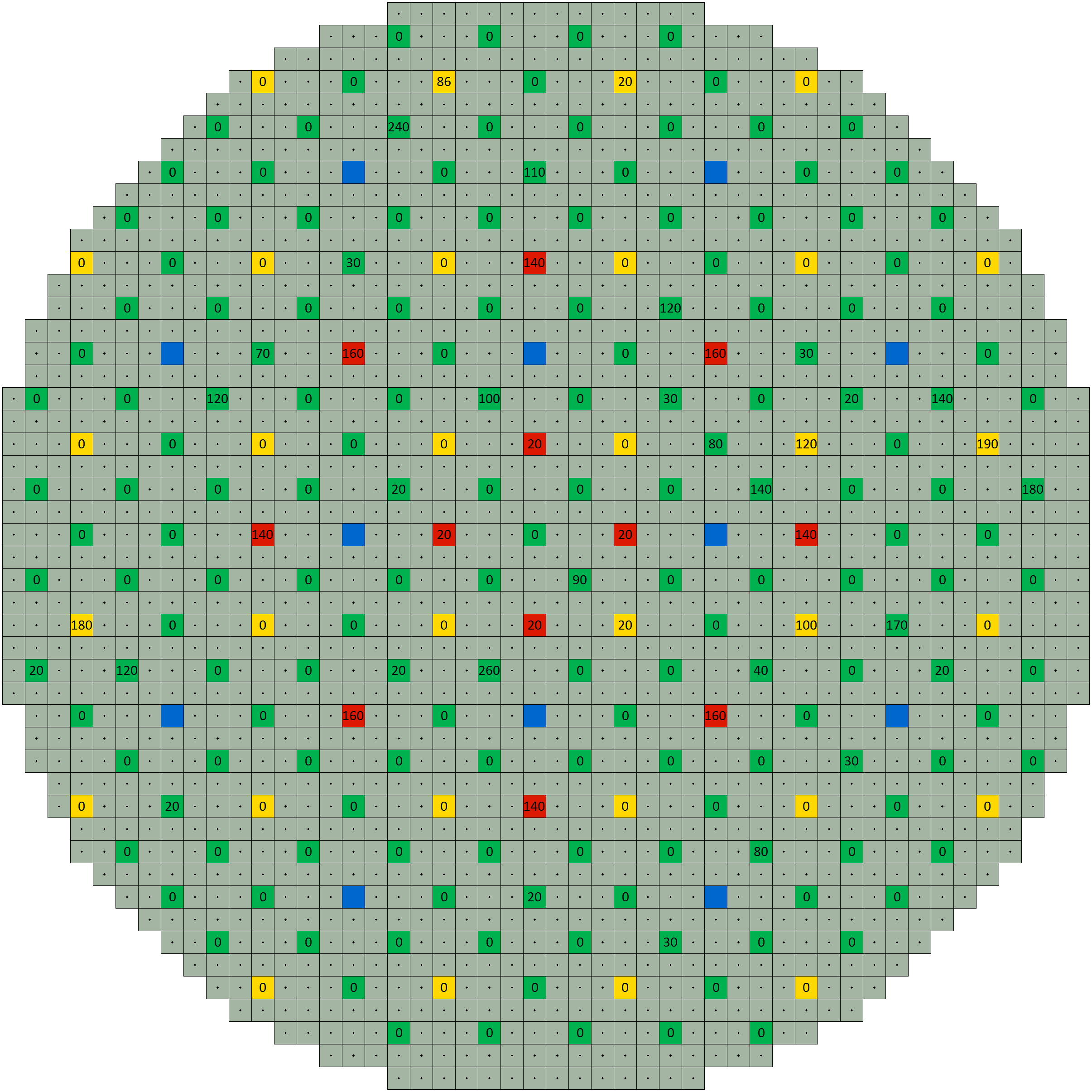 RBMK-Core of Chernobyl-4: Positions of control rods (insertion depth in centimeters) approximately 1min30s before the explosion on Saturday, 26. April 1986, last signal of SKALA control system at 1:22:30 h. Green: (167) Controlrods Blue: (12) Neutron detectors Yellow: (32) Shortened absorber rods come in from under the reactor core Grey: (1661) Pressuretubes Red: (12) Automatic controlrods